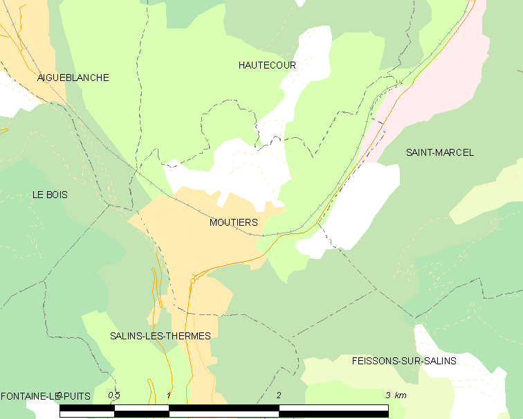 Map of French municipality